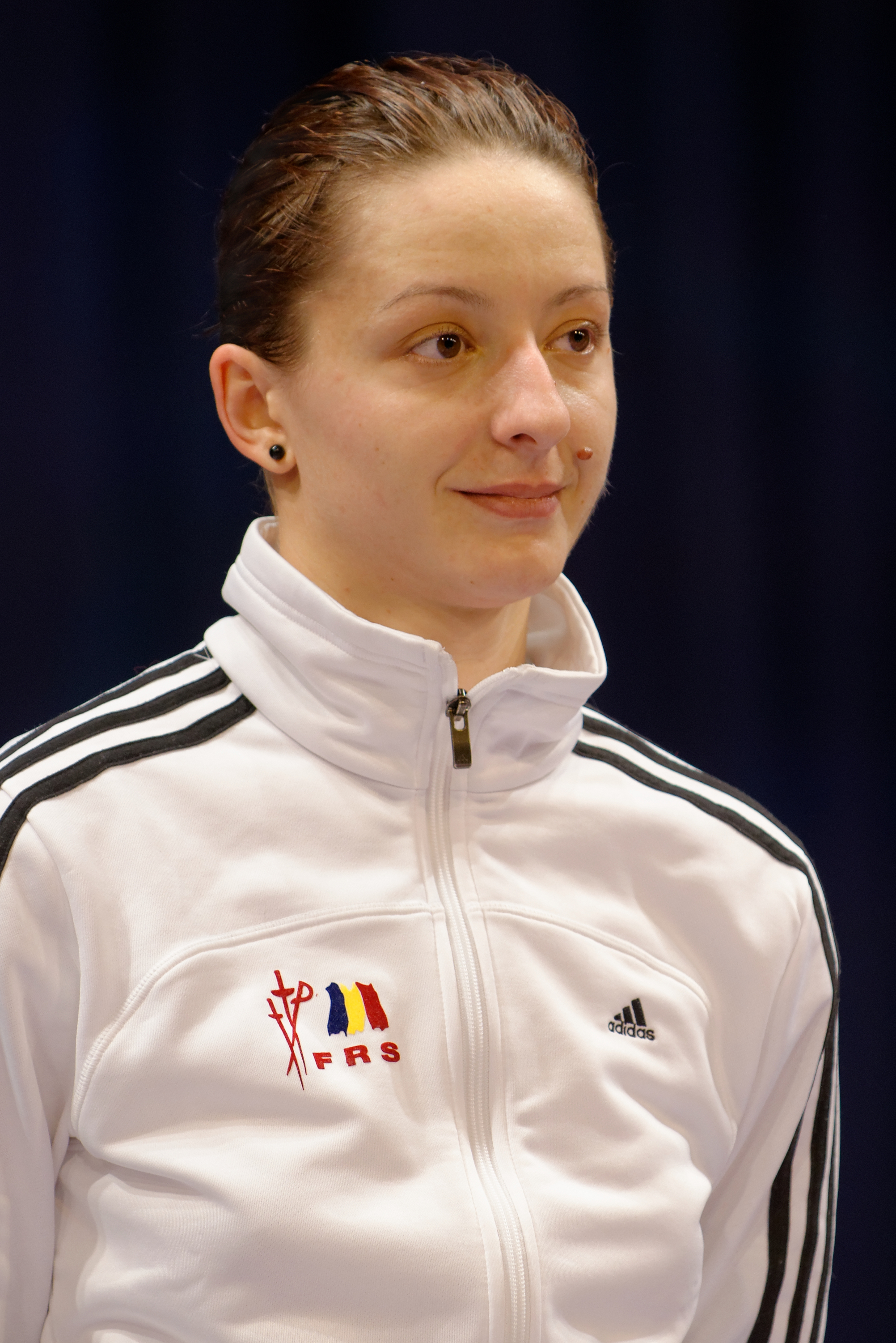 Ana Maria Brânză at the trophy presentation–Challenge international de Saint-Maur 2013, women's épée World Cup tournament.